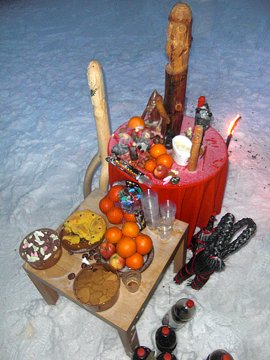 Forn Sed: Altar with Old Norse cult images and offerings when Forn Sed Sweden is celebrating Yule Blót at 19th December 2010 in Gothenburg, Västergötland, Sweden. The two tall cult images are the Old Norse deities Freya (Freyja) and Frey (Freyr). The smaller cult images are the deities Frey (Freyr), Thor (Þórr), Odin (Óðinn), and Freya (Freyja).